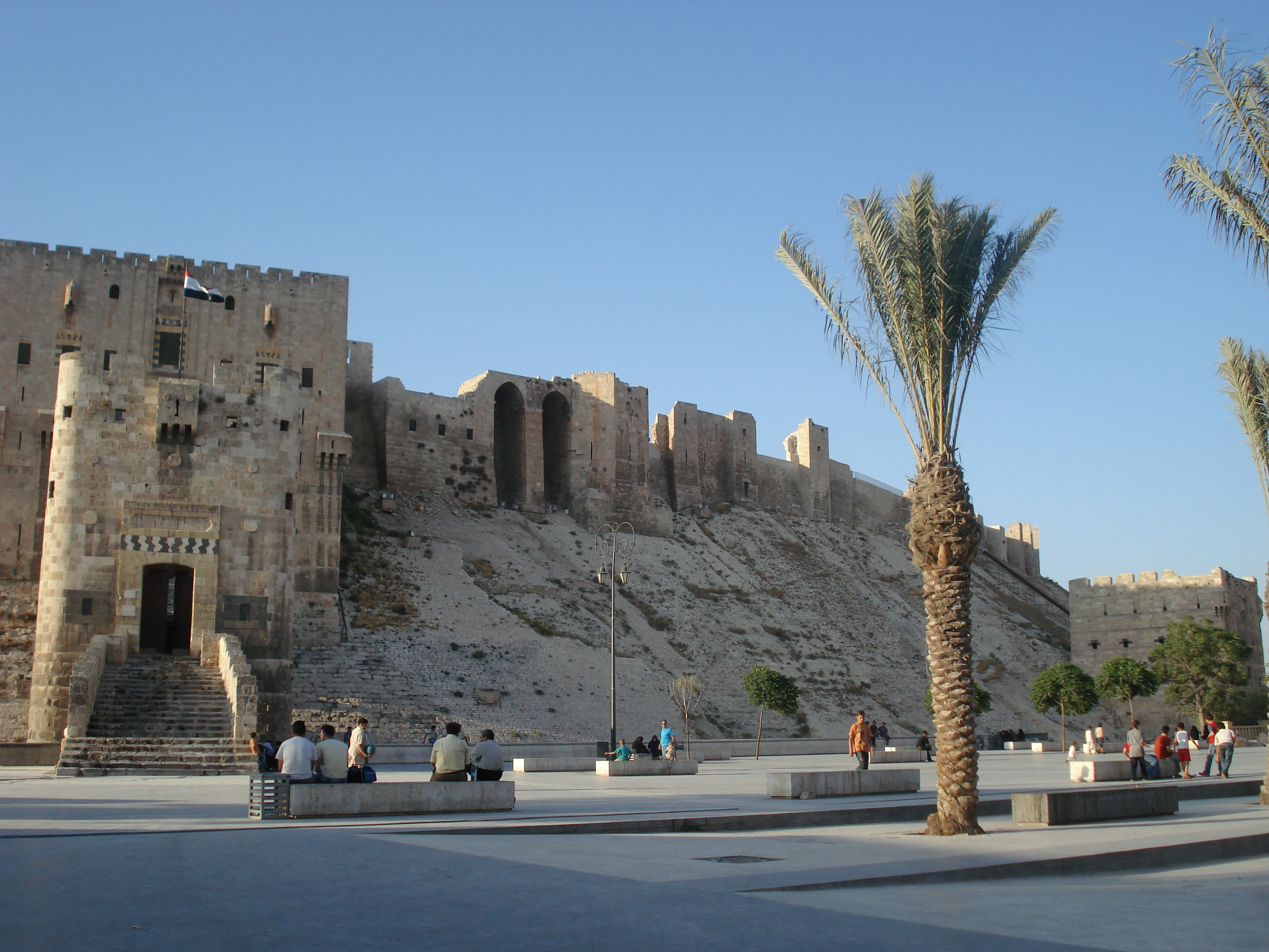 Aleppo Citadel